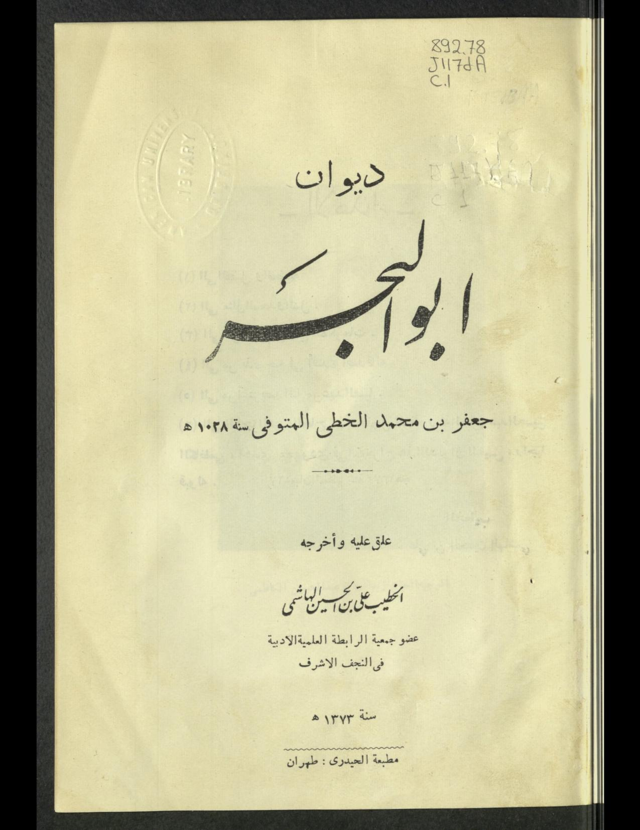 Cover page of Diwan Ja'far al-Khatti , published by Haydari Publishing house in Tehran, 1954